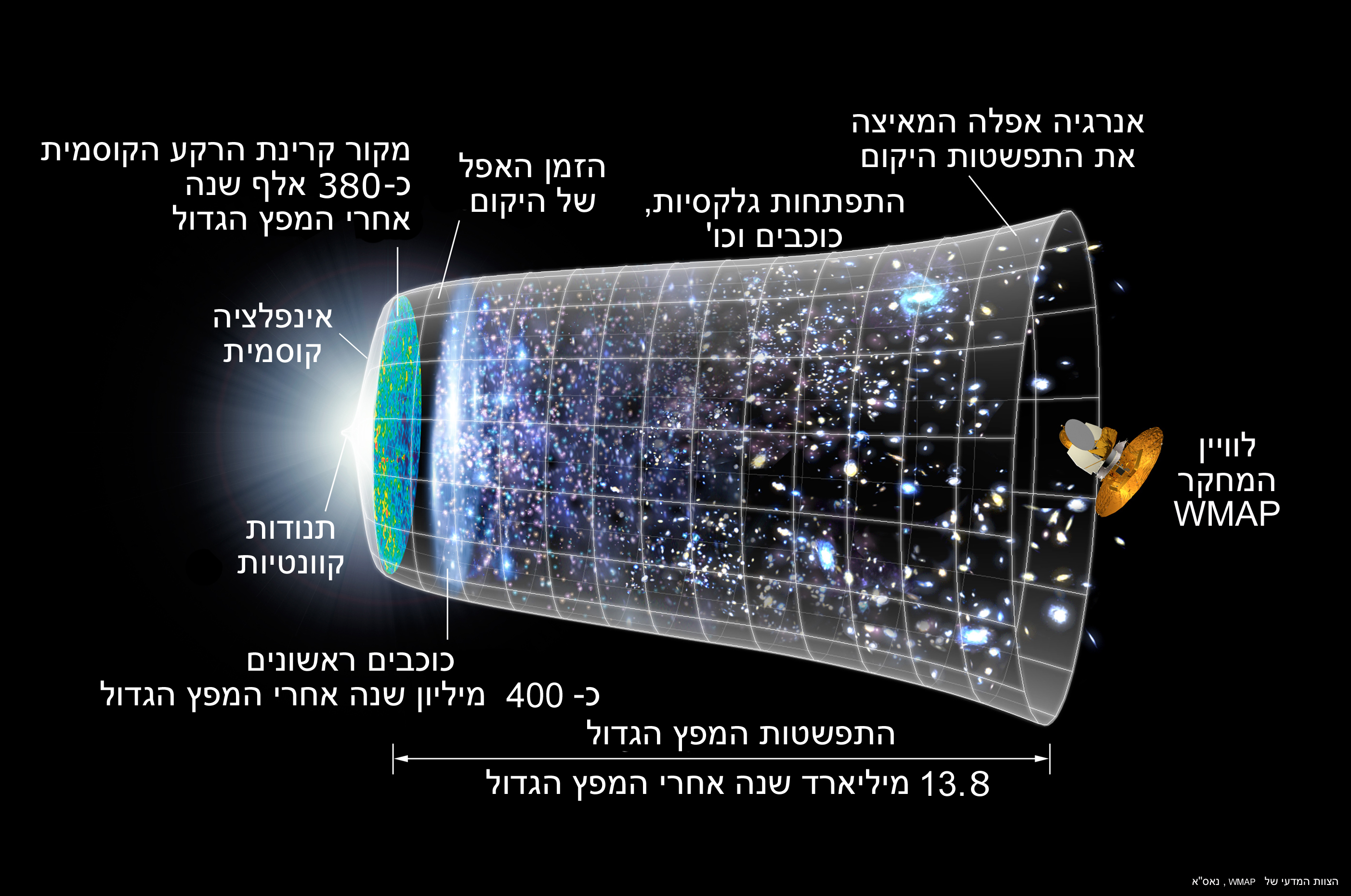 Time Line of the Universe Credit: NASA/WMAP Science Team [1]